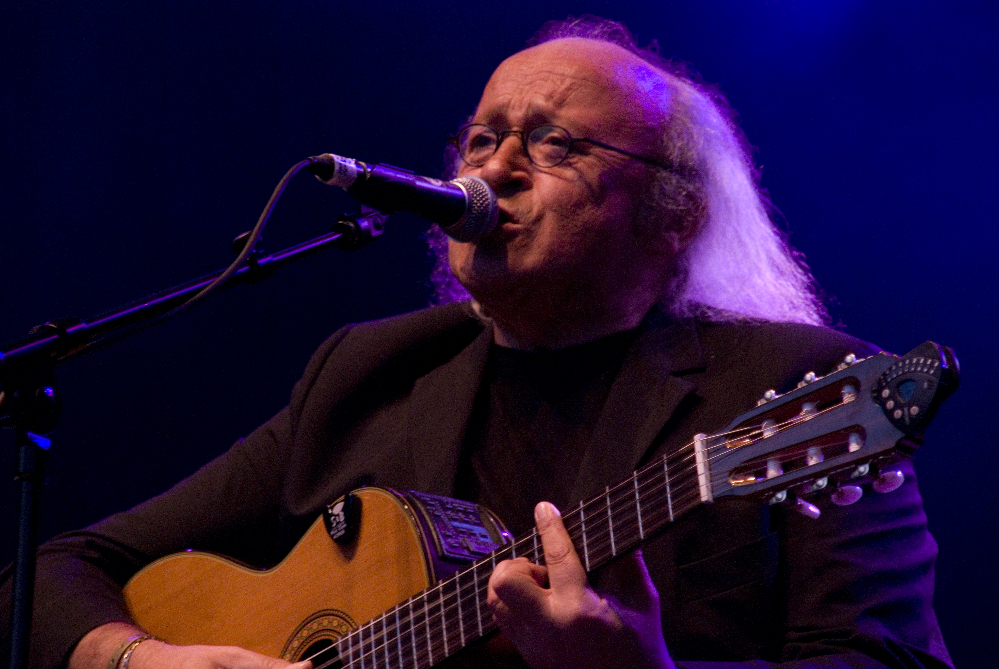 Freddy Birset at a concert in 2007